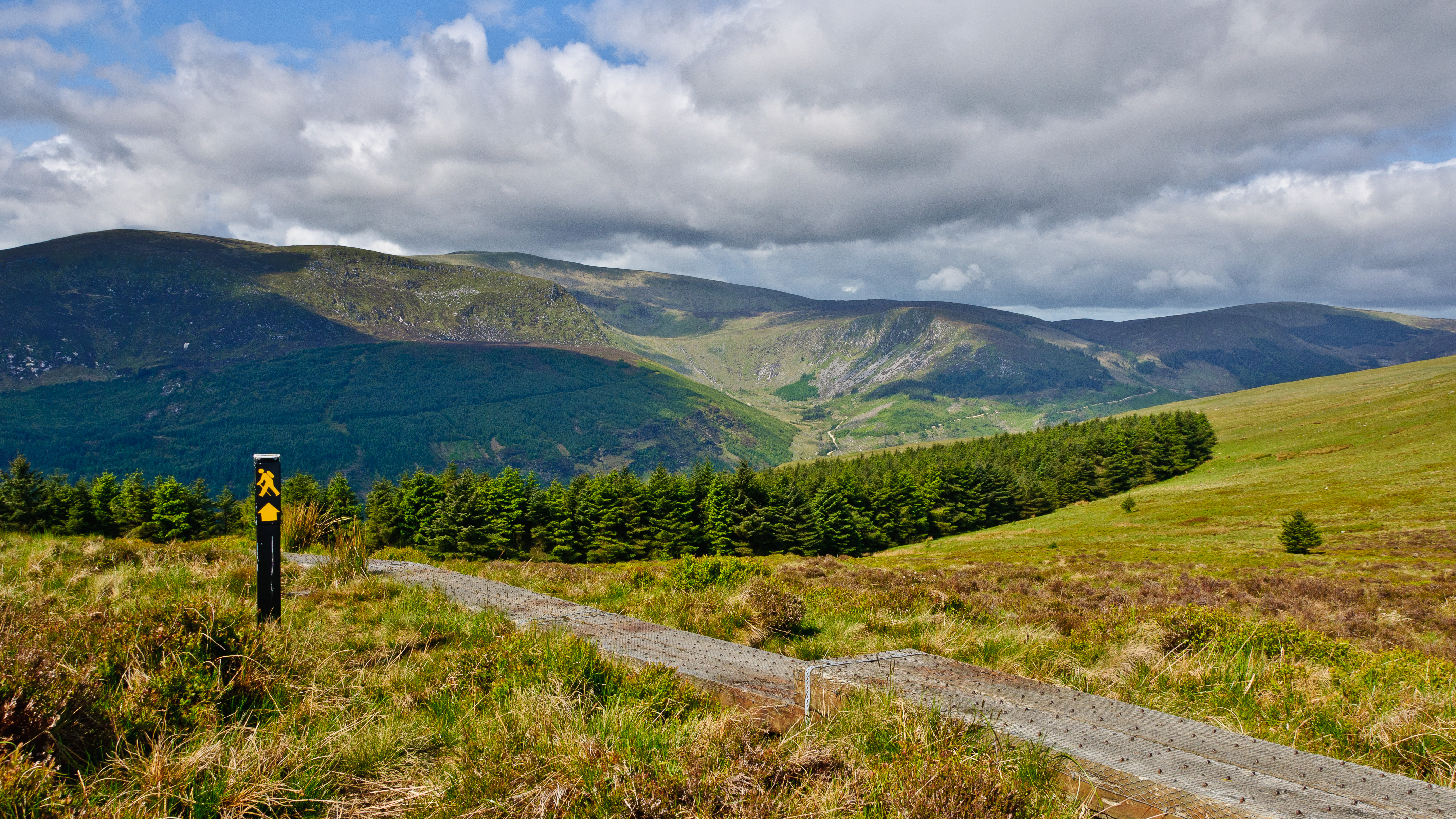 Lugnaquilla, the highest mountain in County Wicklow, Ireland at 925 metres, as seen from the Wicklow Way hiking trail on the saddle between Lugduff and Mullacor mountains.